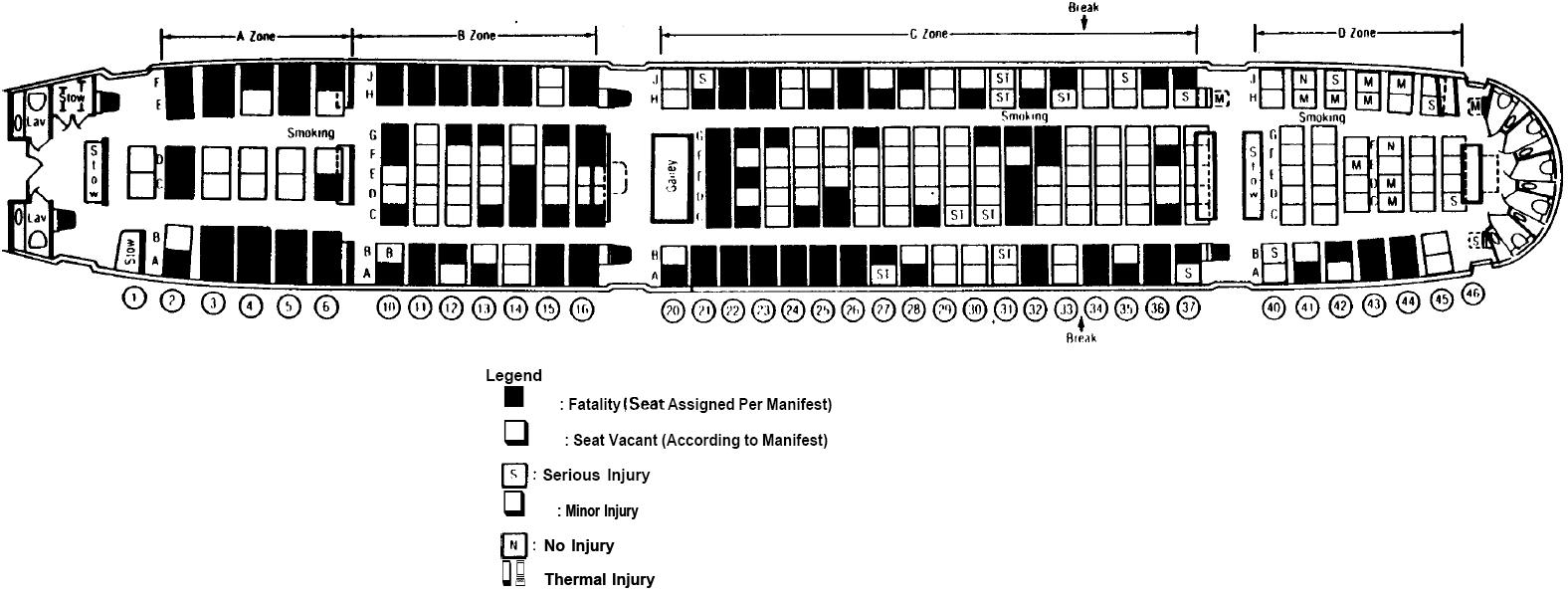 NTSB map indicating locations of passengers according to lack of injury, types of injuries, and deaths